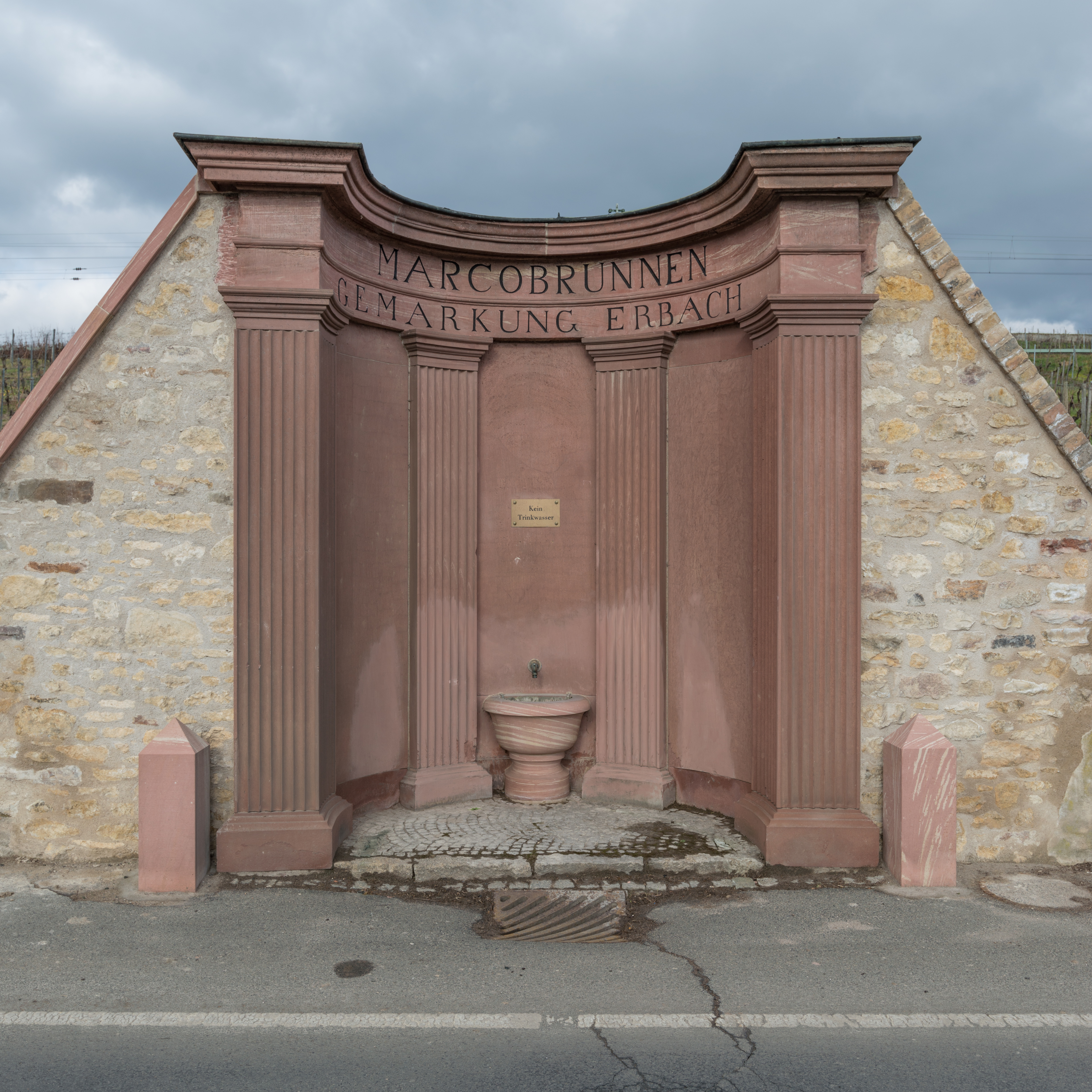 A monument dedicated to the Marcobrunn Vineyards, located between Hattenheim and Erbach